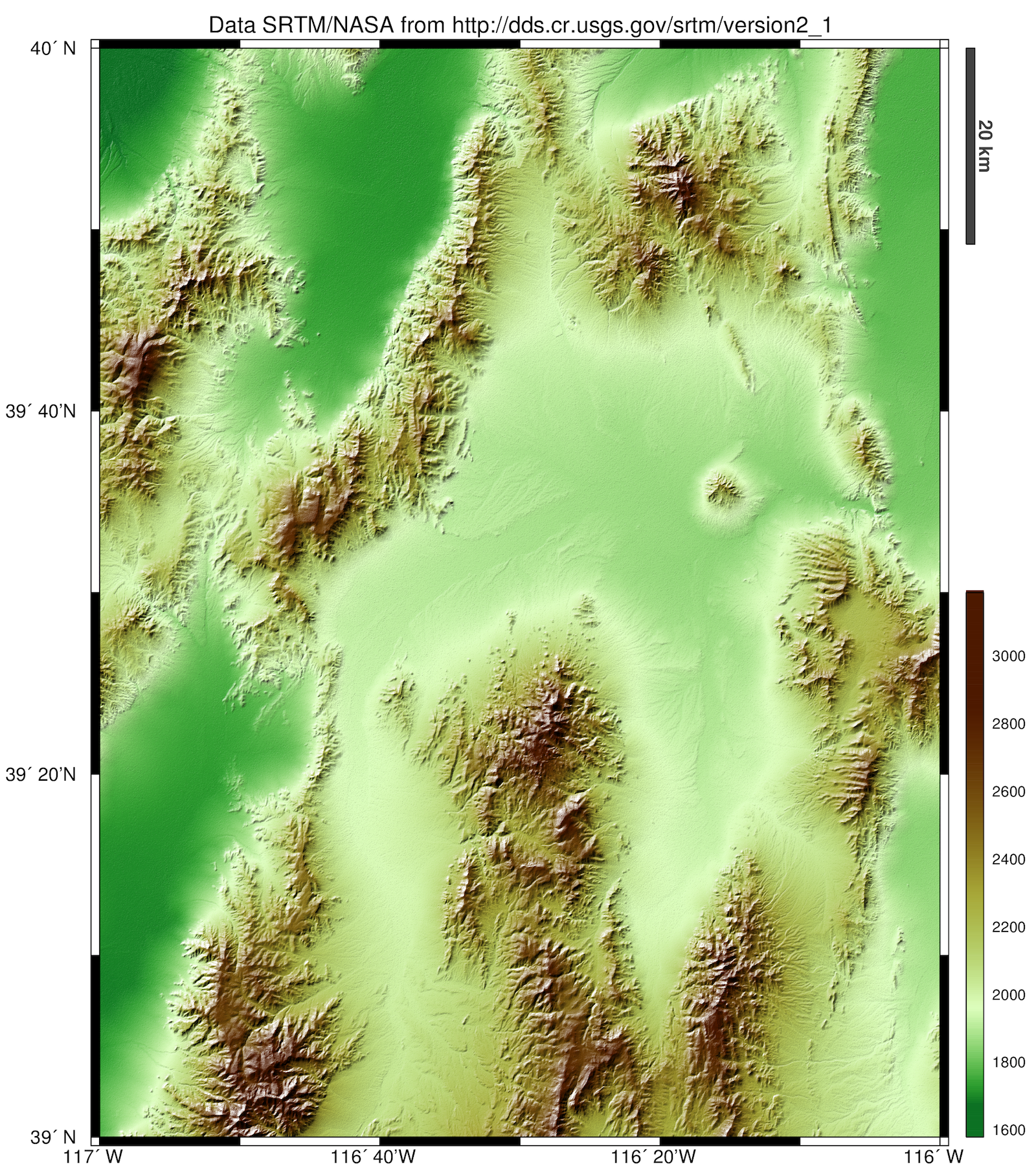 Example of relief map from SRTM1 data (central Nevada, near US-50)